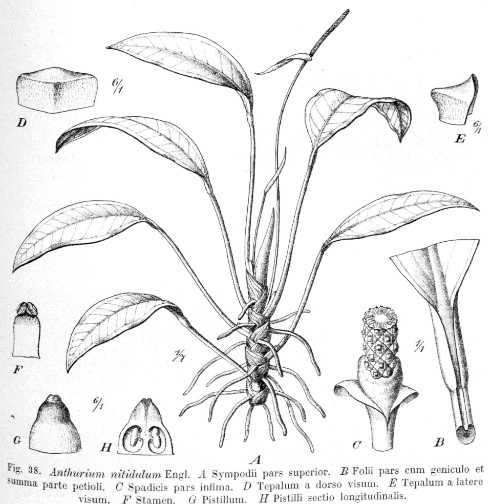 Anthurium nitidulum botanical drawing